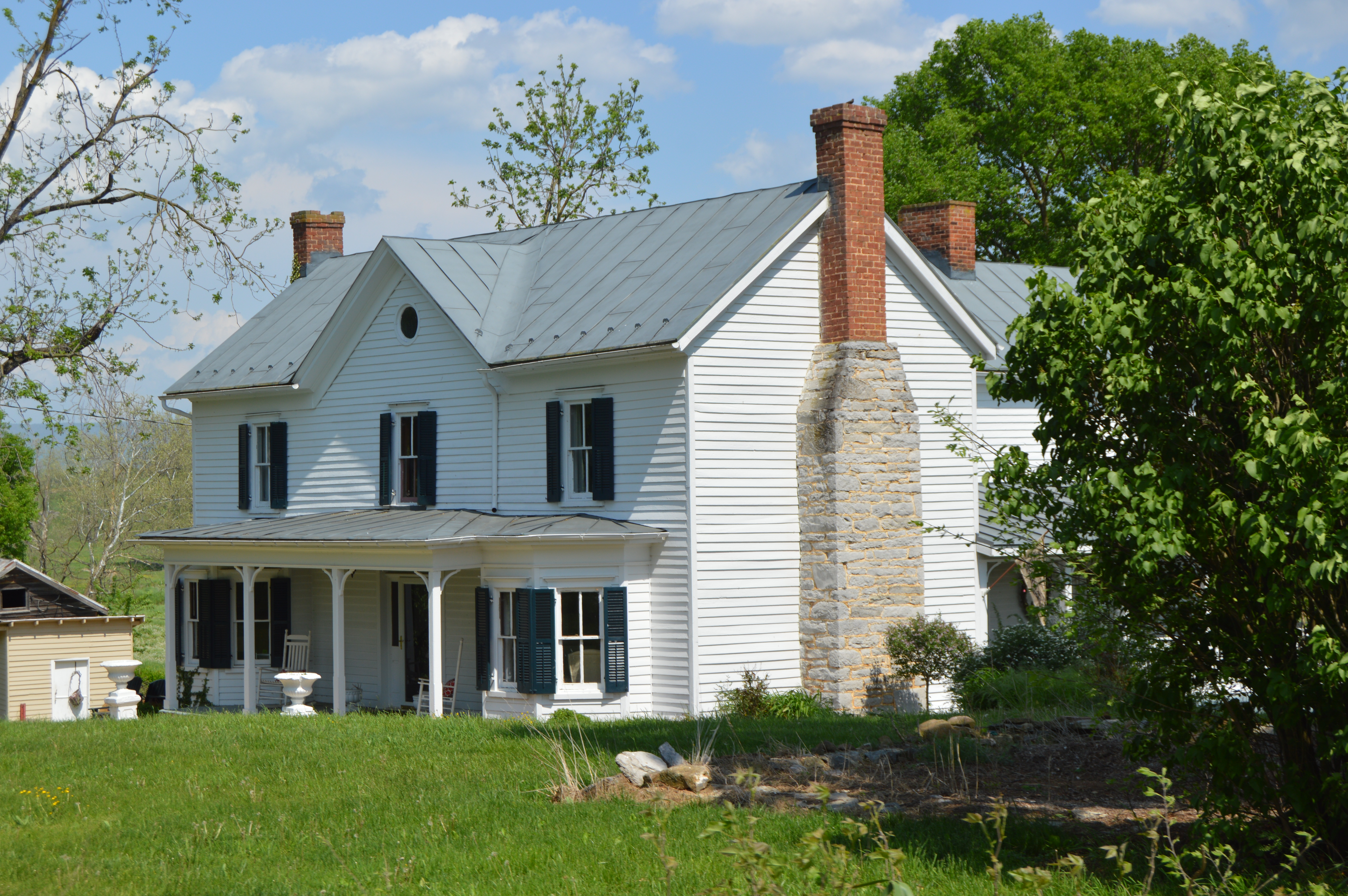 Front and southwestern side of the David and Catherine Driver Farmhouse, located on Long Meadow Road southeast of Timberville in Rockingham County, Virginia, United States. Built in 1839, it is listed on the National Register of Historic Places.